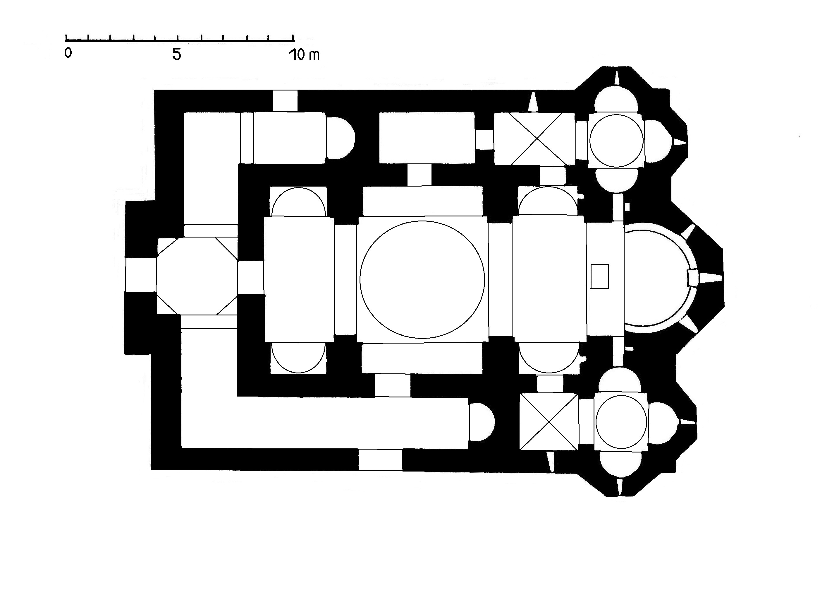 Vachnadziani Kvelatsminda, from Mepisaschwili, Zinzadse: Die Kunst des alten Georgien. 1977, p. 100